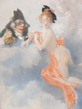 Cheret, Jules - Eulogy of Lust